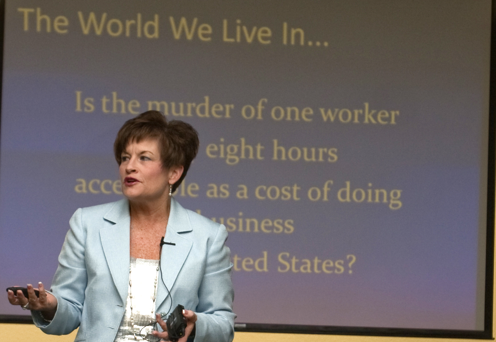 Deborah R. Collins, executive director for the National Security Training Institute, presents her Violence in the Workplace security briefing to dozens of service members and employees assigned to U.S. Marine Corps Forces, Pacific, Sept. 10 at the MarForPac headquarters building, Camp H. M. Smith, Hawaii. Collins uses her firsthand experience as a survivor of the 1988 shooting at Electromagnetic Systems Labs to teach the warning signs and how to handle a potentially violent employee.